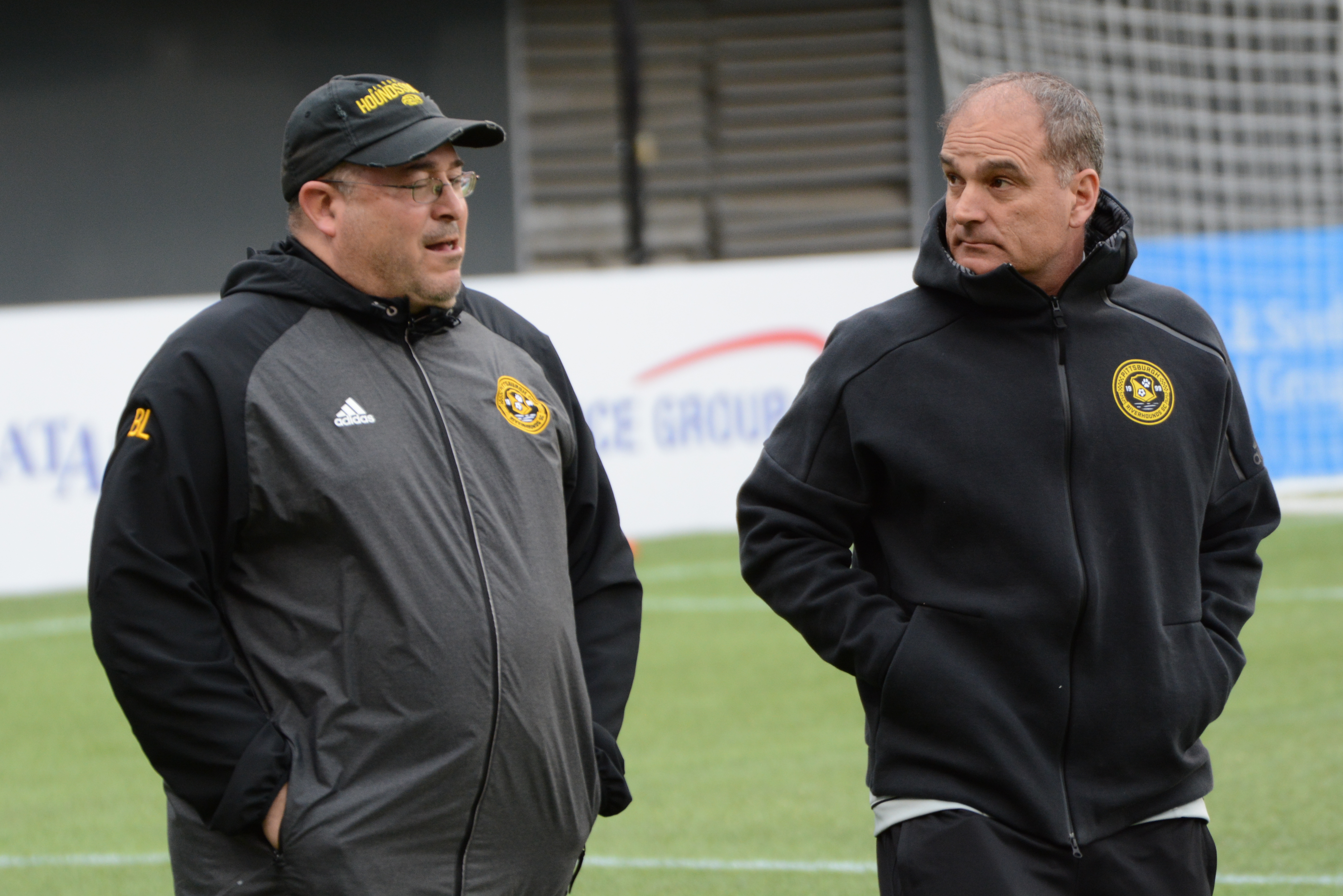 Taken during a USL regular season match between FC Cincinnati and Pittsburgh Riverhounds at Nippert Stadium in Cincinnati, USA on April 21, 2018.